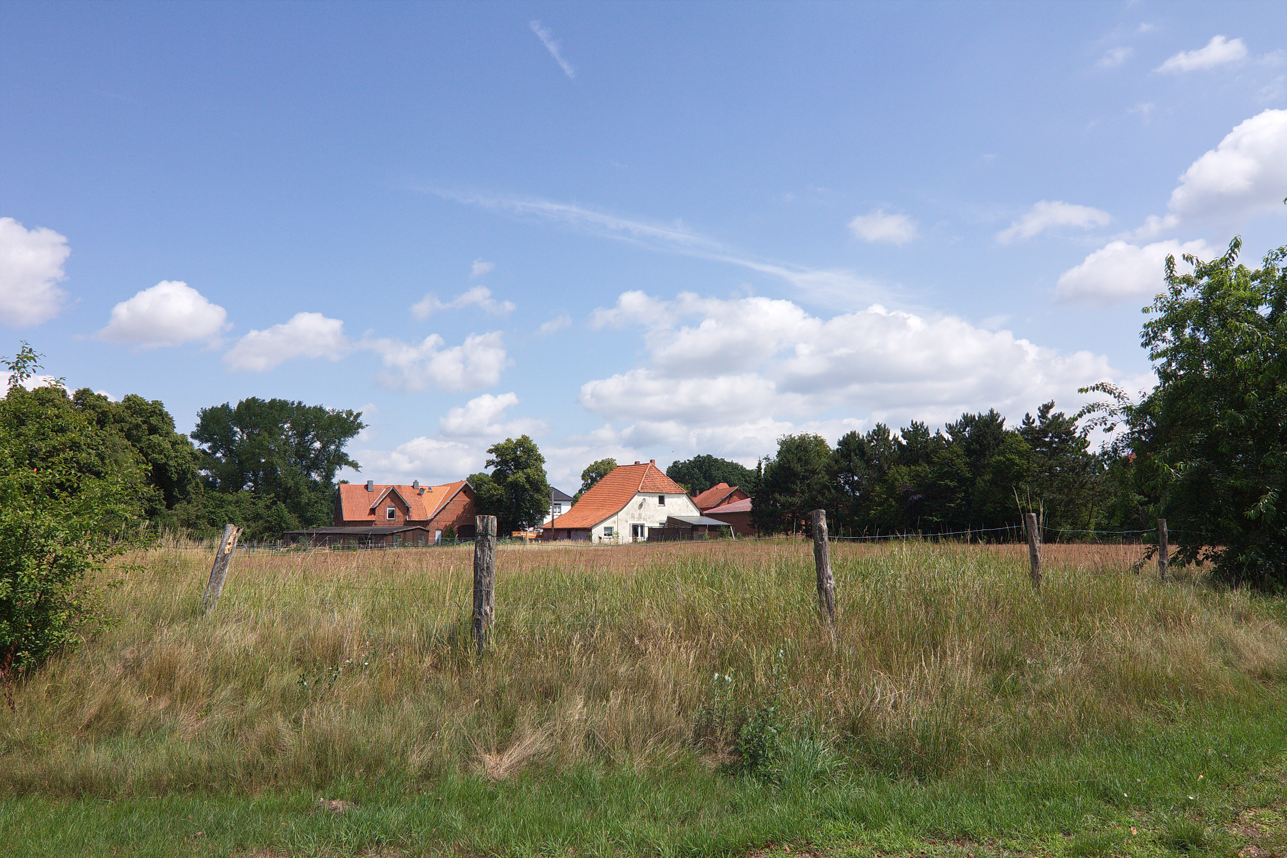 Ortsblick in Leese, Niedersachsen, Deutschland